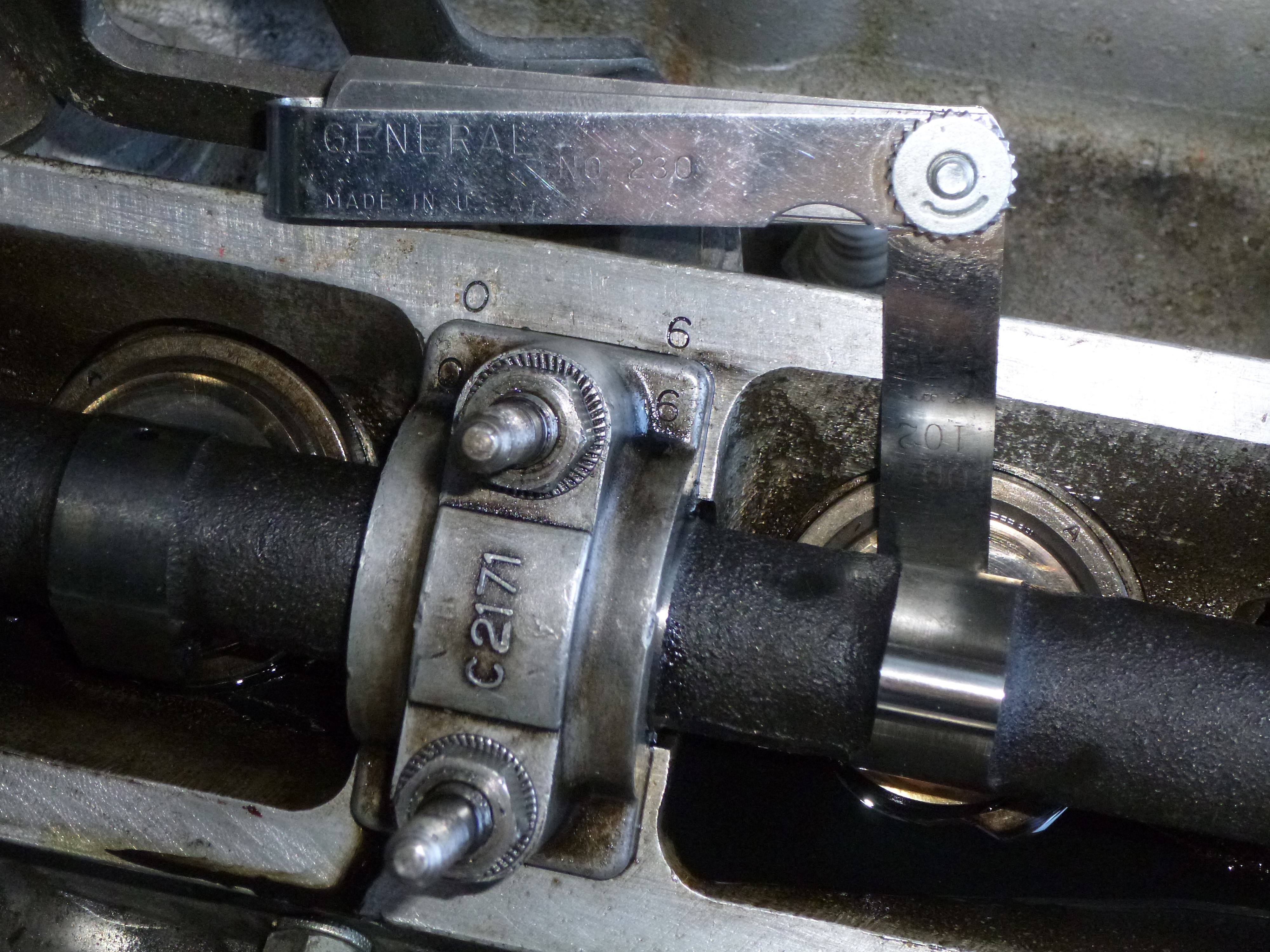 XK engine, measuring valve clearance on inlet camshaft with a feeler gauge (0.004" = 0,1016mm)